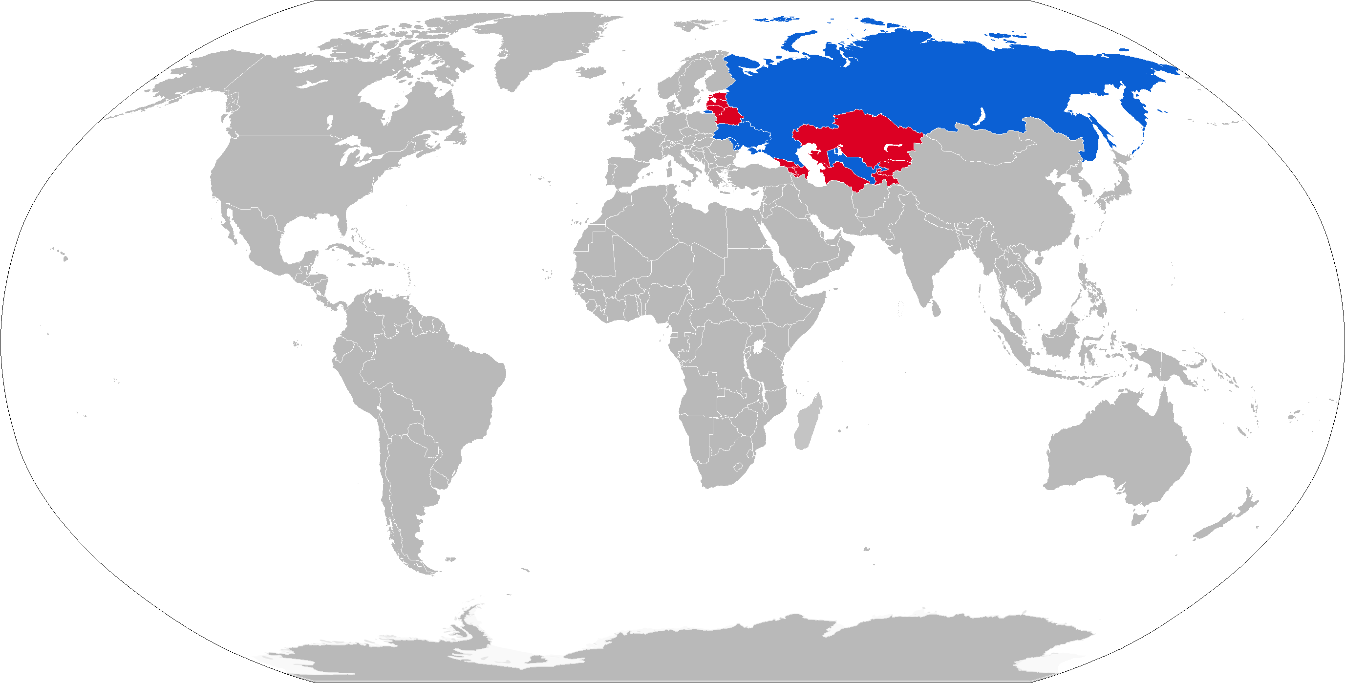 Map of BTR-D operators in blue with former operators in red